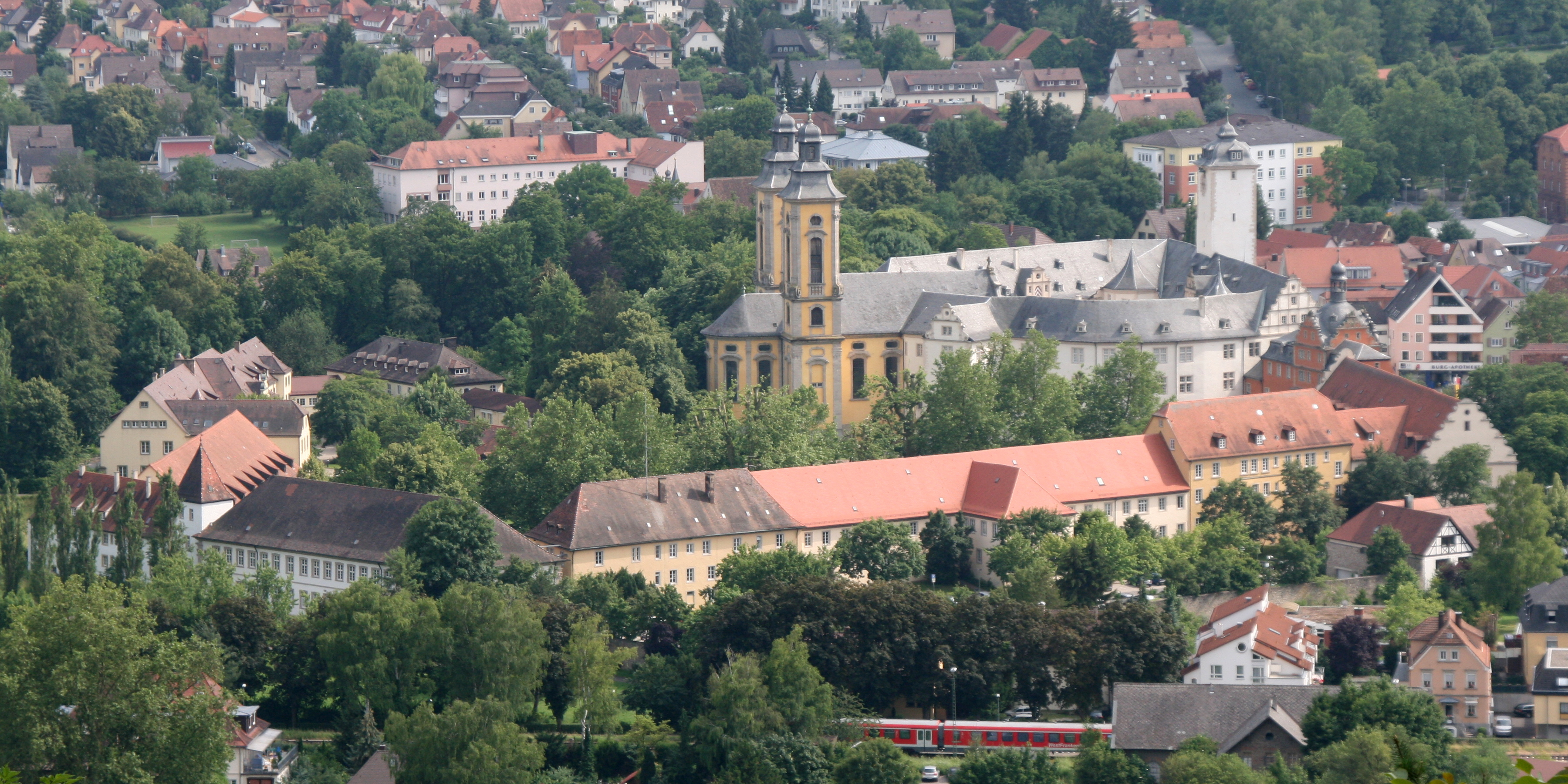 The Teutonic Order castle in Bad Mergentheim. Right of center the Hochschloss (in white) with the castle church (in yellow), in front and to the left further buildings of the castle area